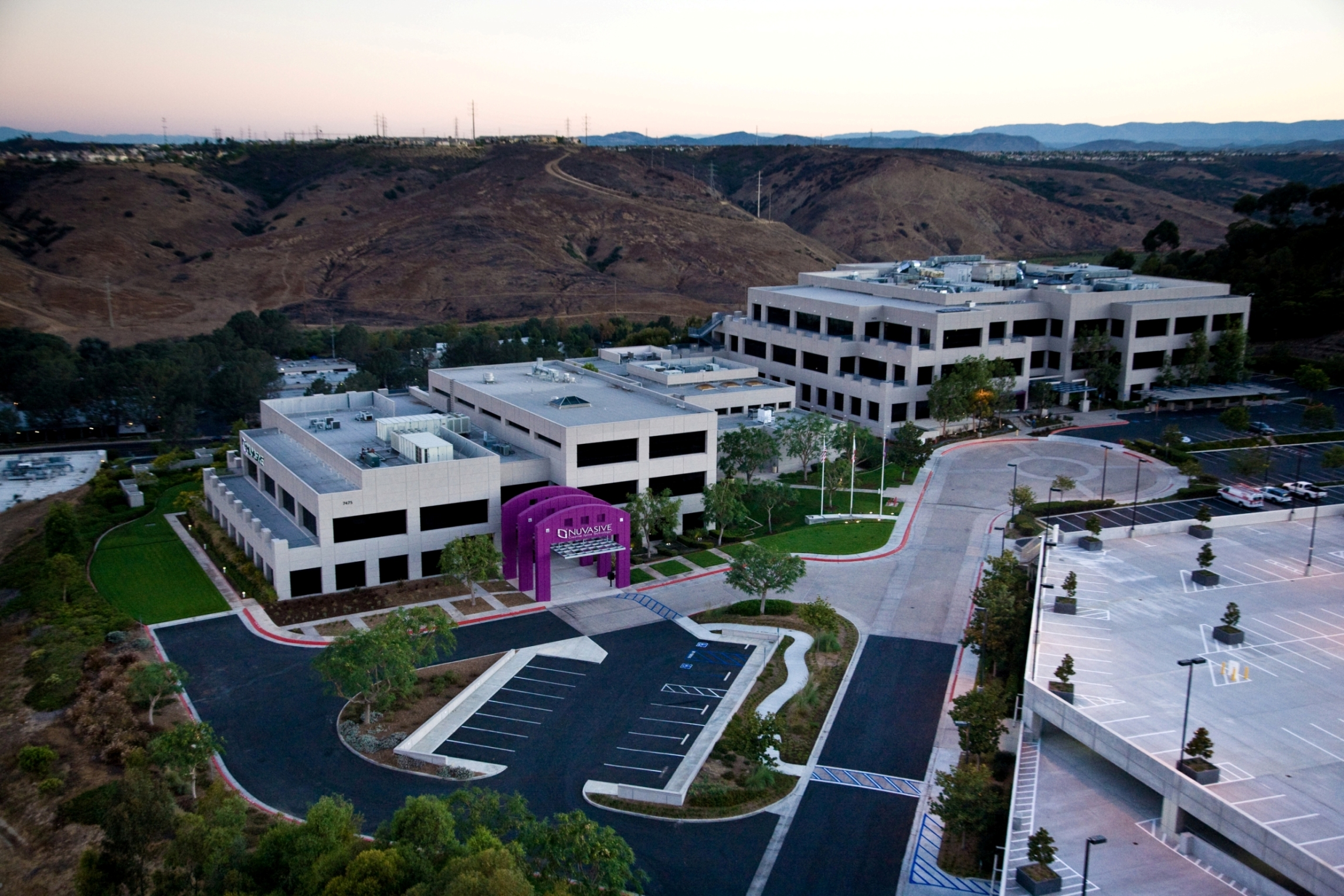 Aerial headquarters